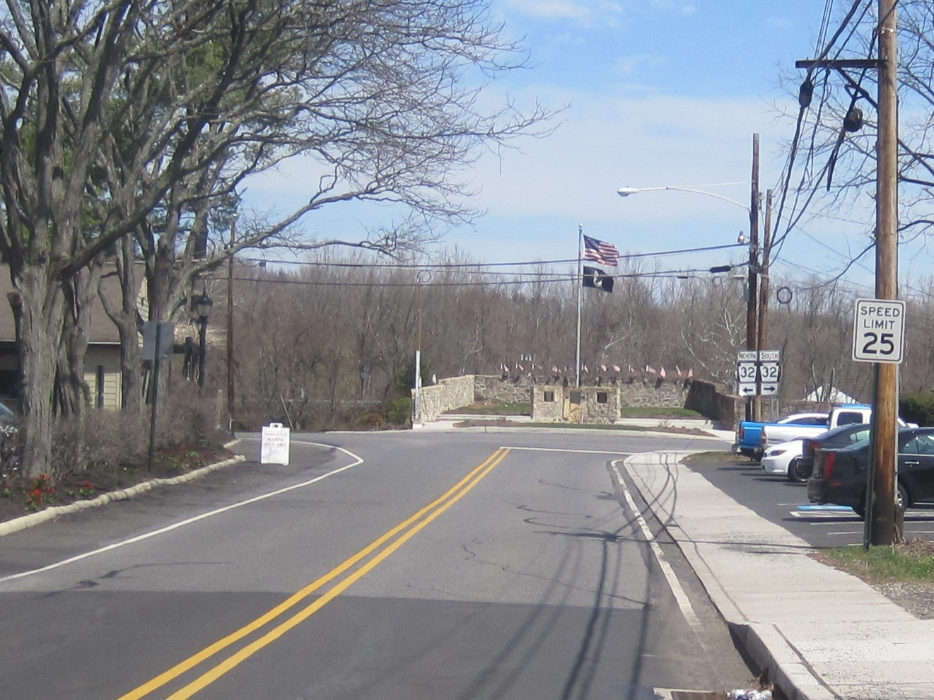 Photograph of PA 332's eastern terminus at PA 32 in Yardley.